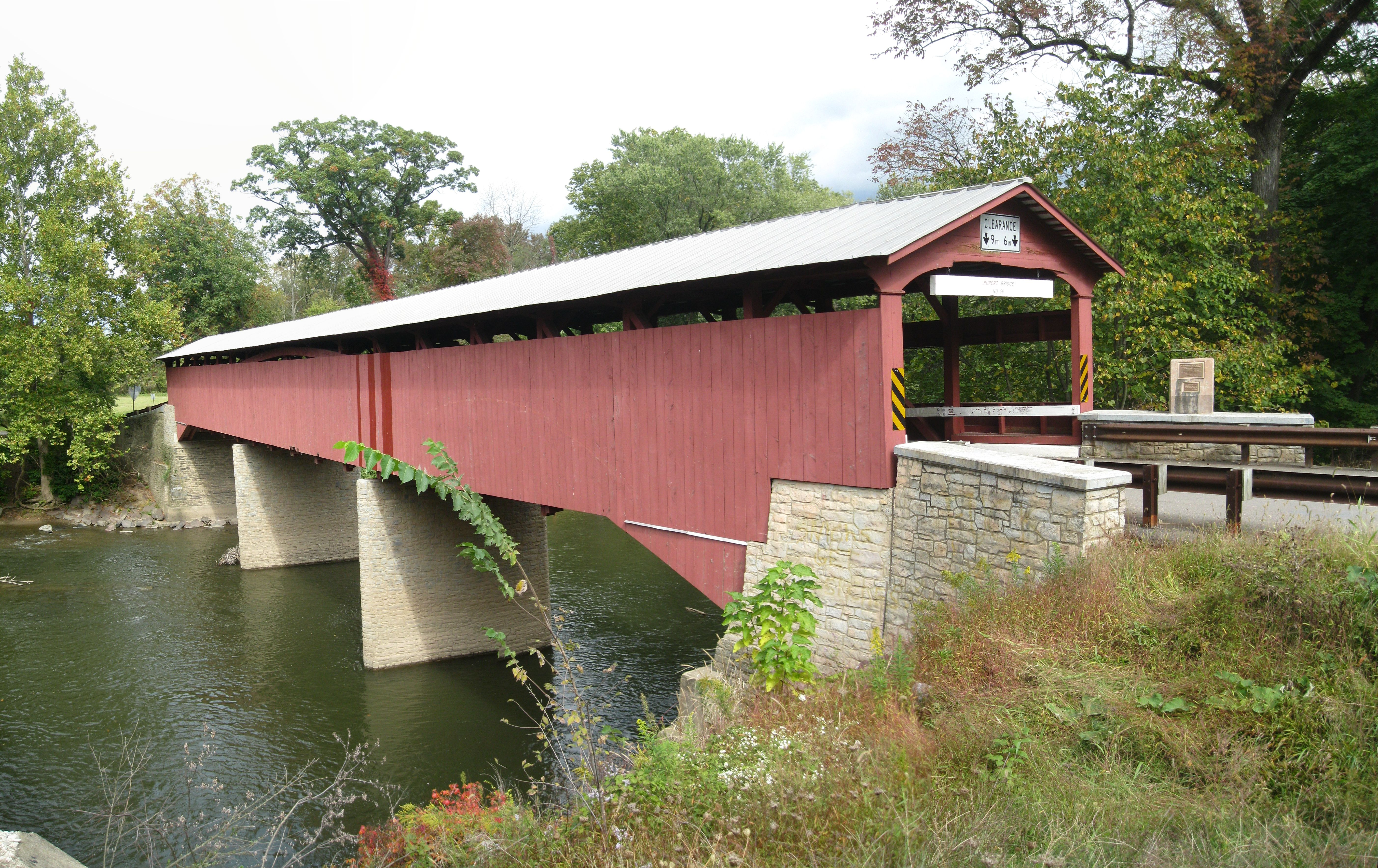 Rupert Covered Bridge No. 56 originally built in 1847 over Fishing Creek between the town of Bloomsburg and Montour Township in Columbia County, Pennsylvania, in the United States.